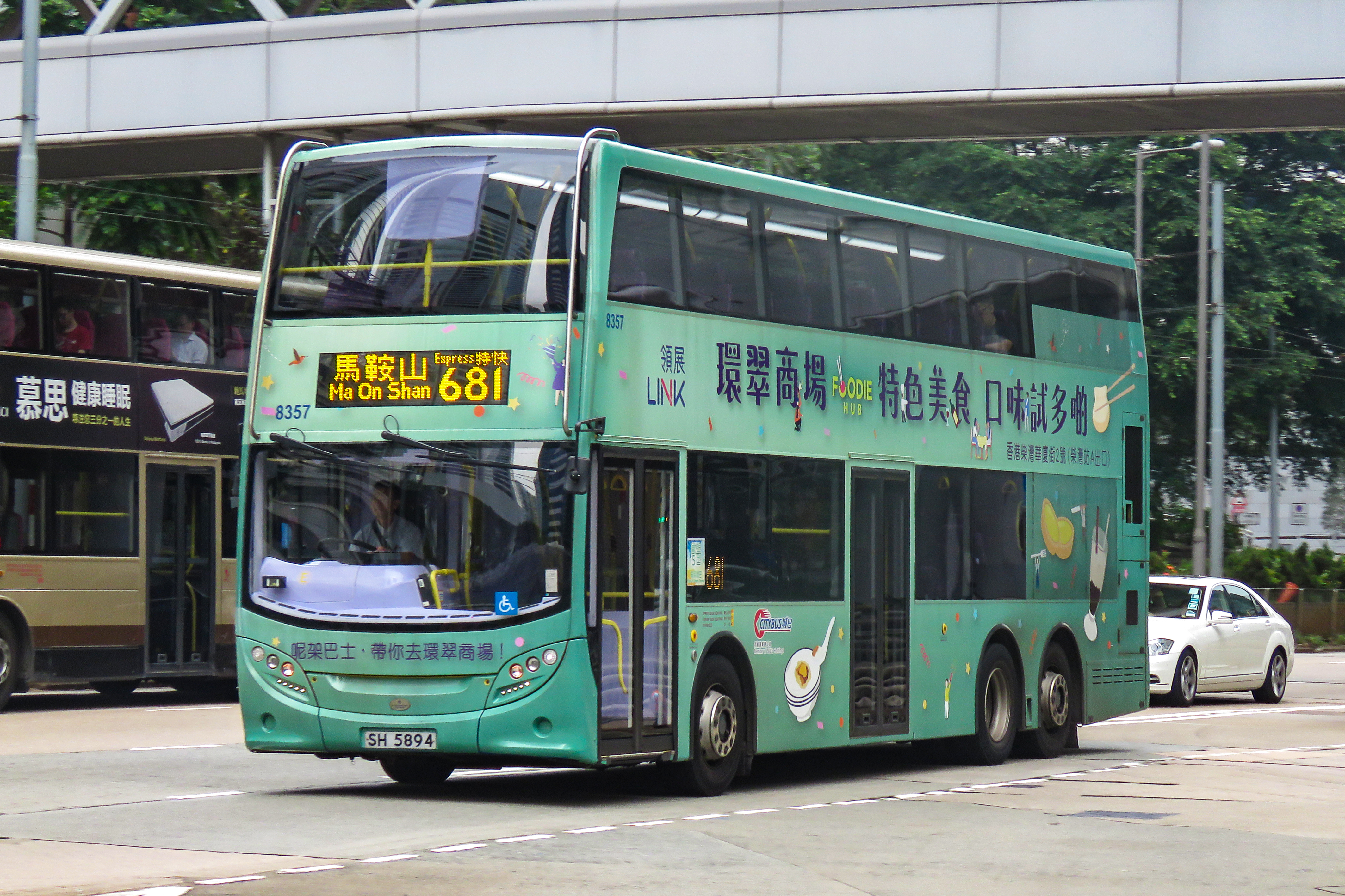 "This bus takes you to Wan Tsui Commercial Centre" - but not now!